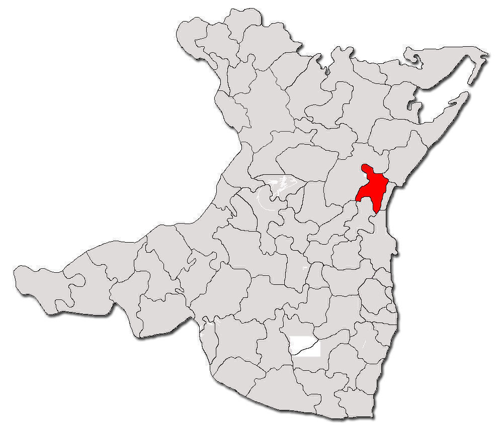 Contour map of Garliciu commune